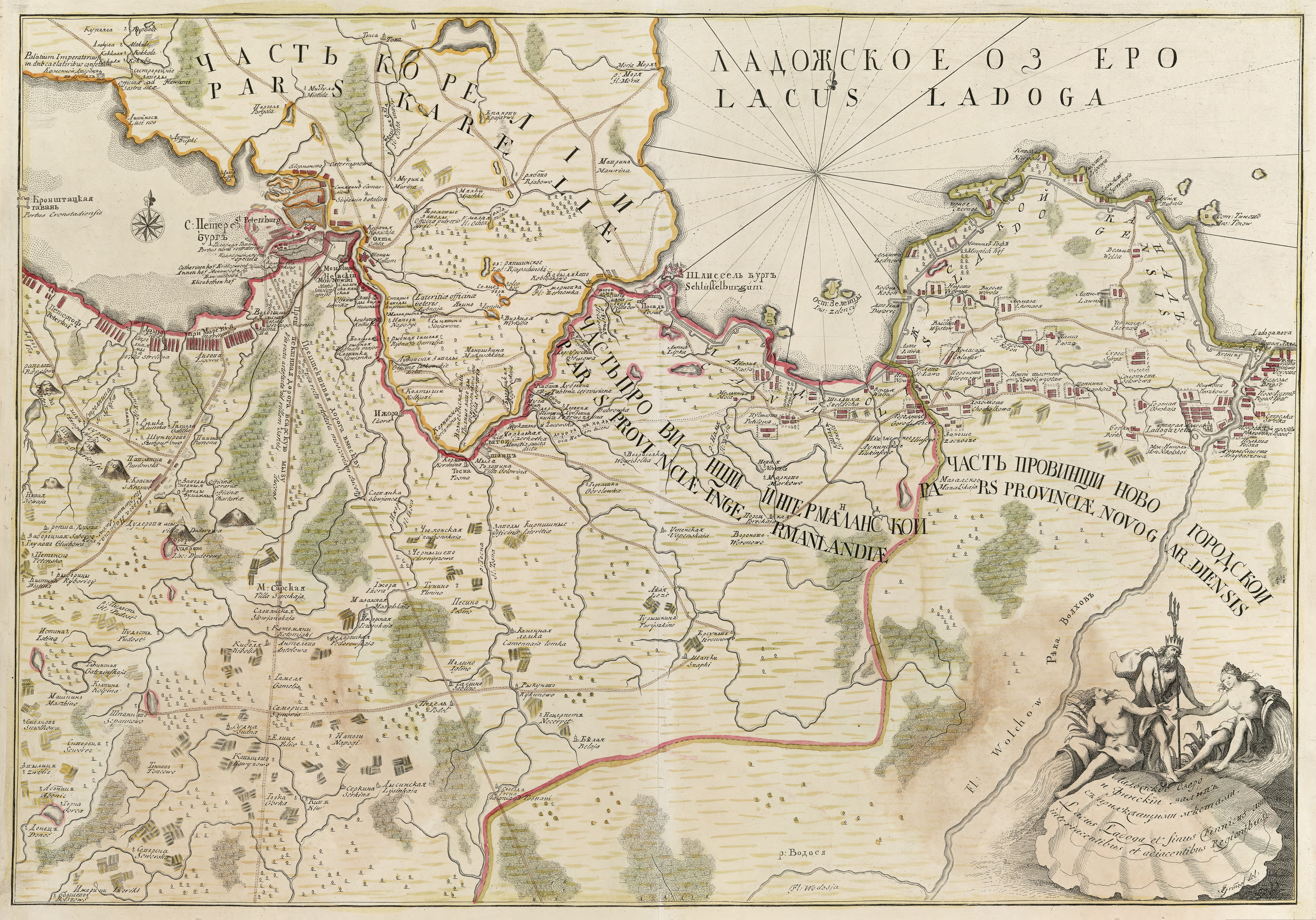 Map of territories nearest to Lake Ladoga and Gulg of Finland. In Russian and Latin.